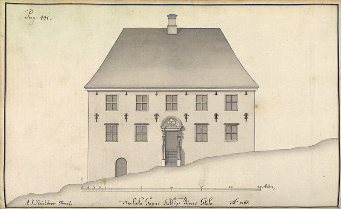 Drawing of Nÿekirke Sogns Fattige Børns Skole in Bergen, Norway